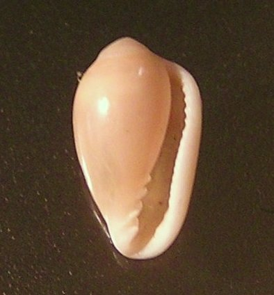 Crop of file in filename